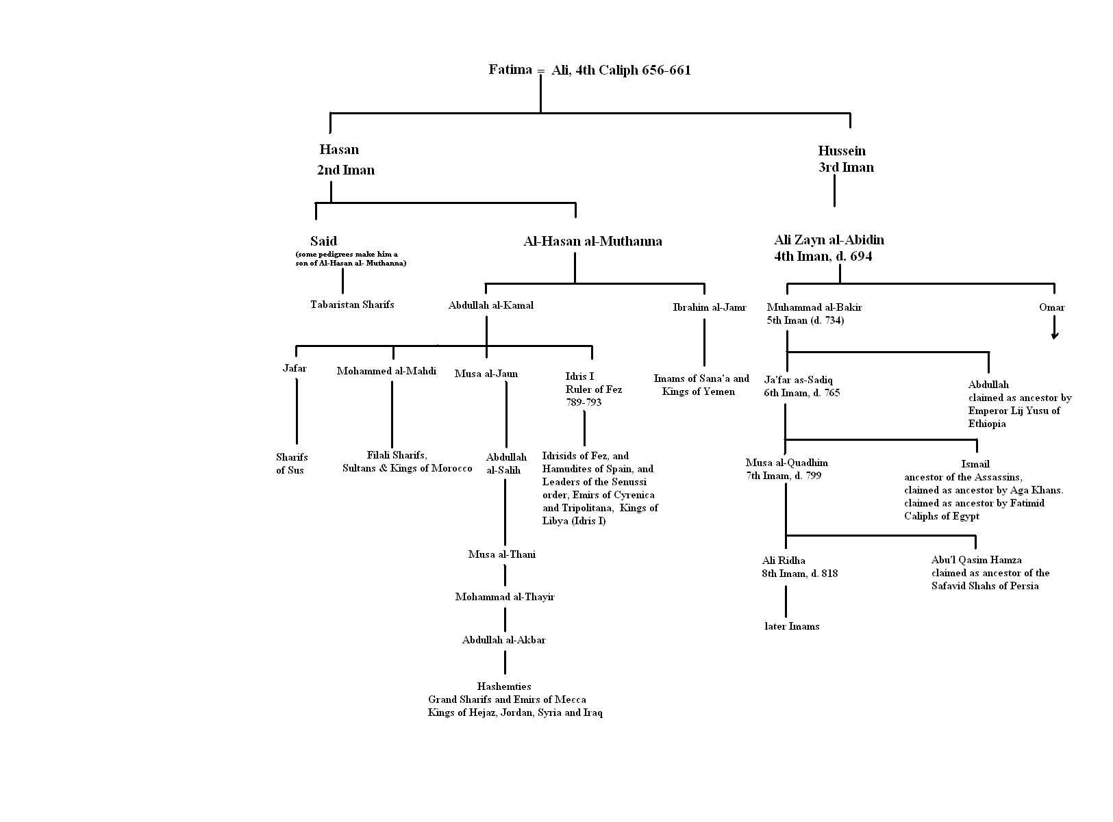 Interrelationships of the Alid Dynasties.